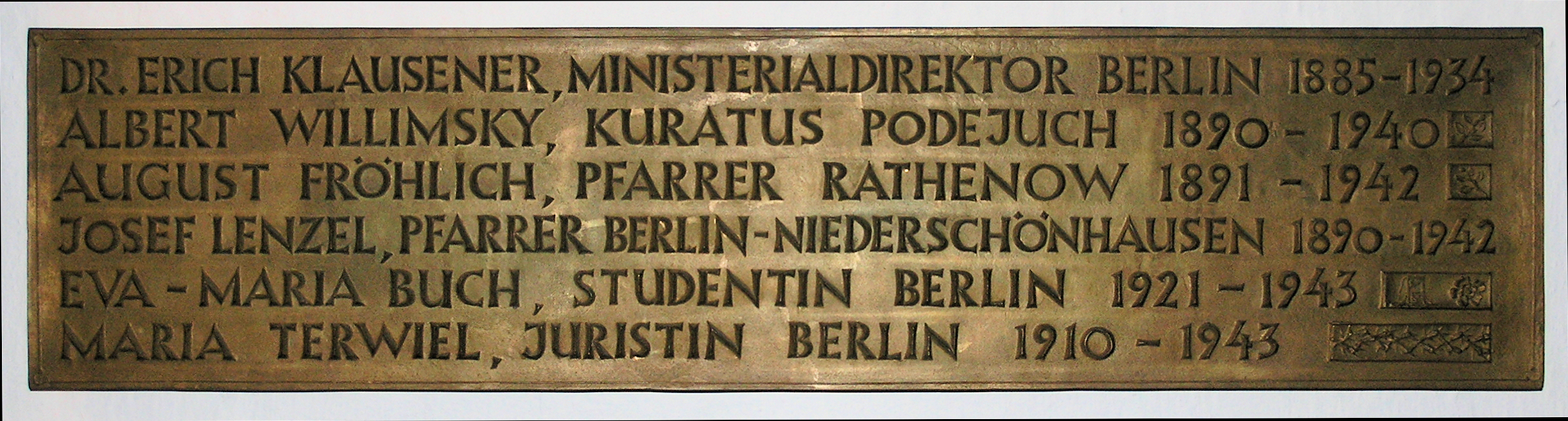 Memorial plaque, Christen im Widerstand, Hinter der Katholischen Kirche 3, Berlin-Mitte, Germany